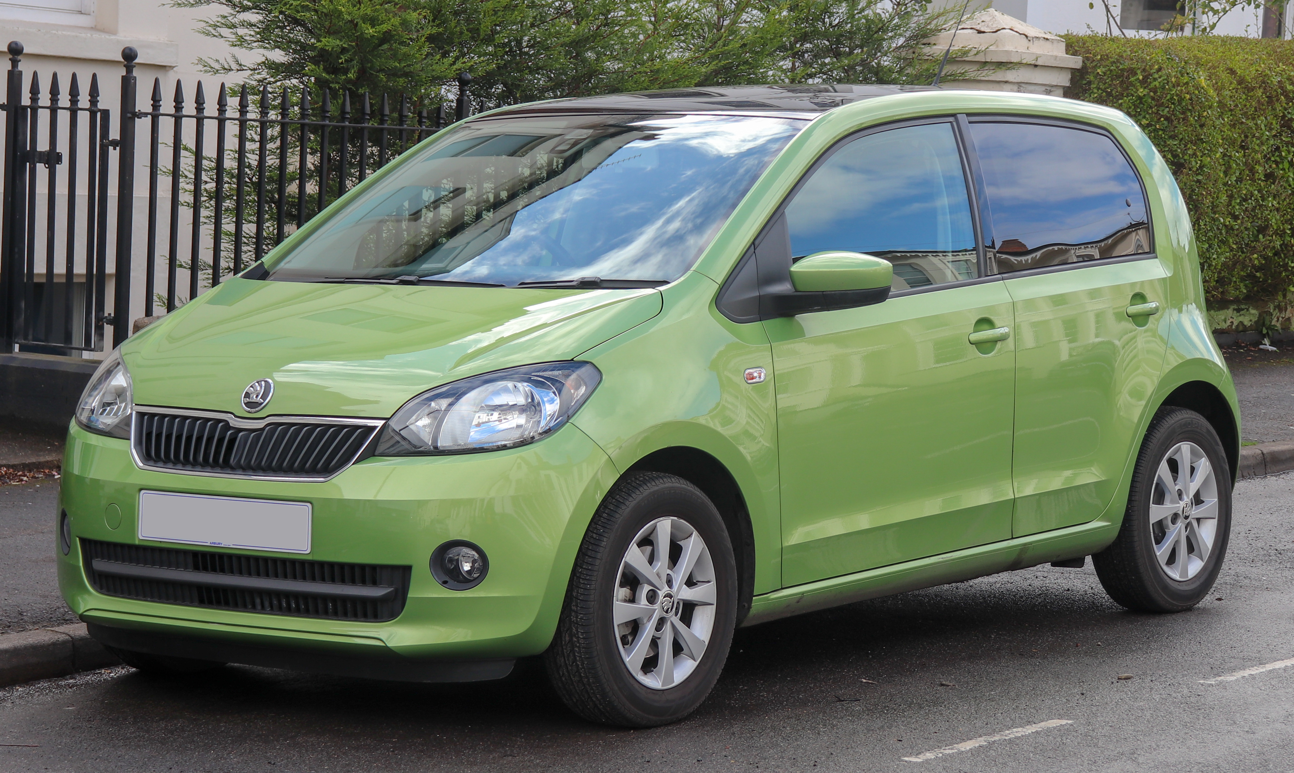 2013 Skoda Citigo Elegance Automatic 1.0 Front Taken in Leamington Spa